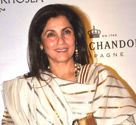 Dimple Kapadia at Sandeep Khosla's 25th year bash